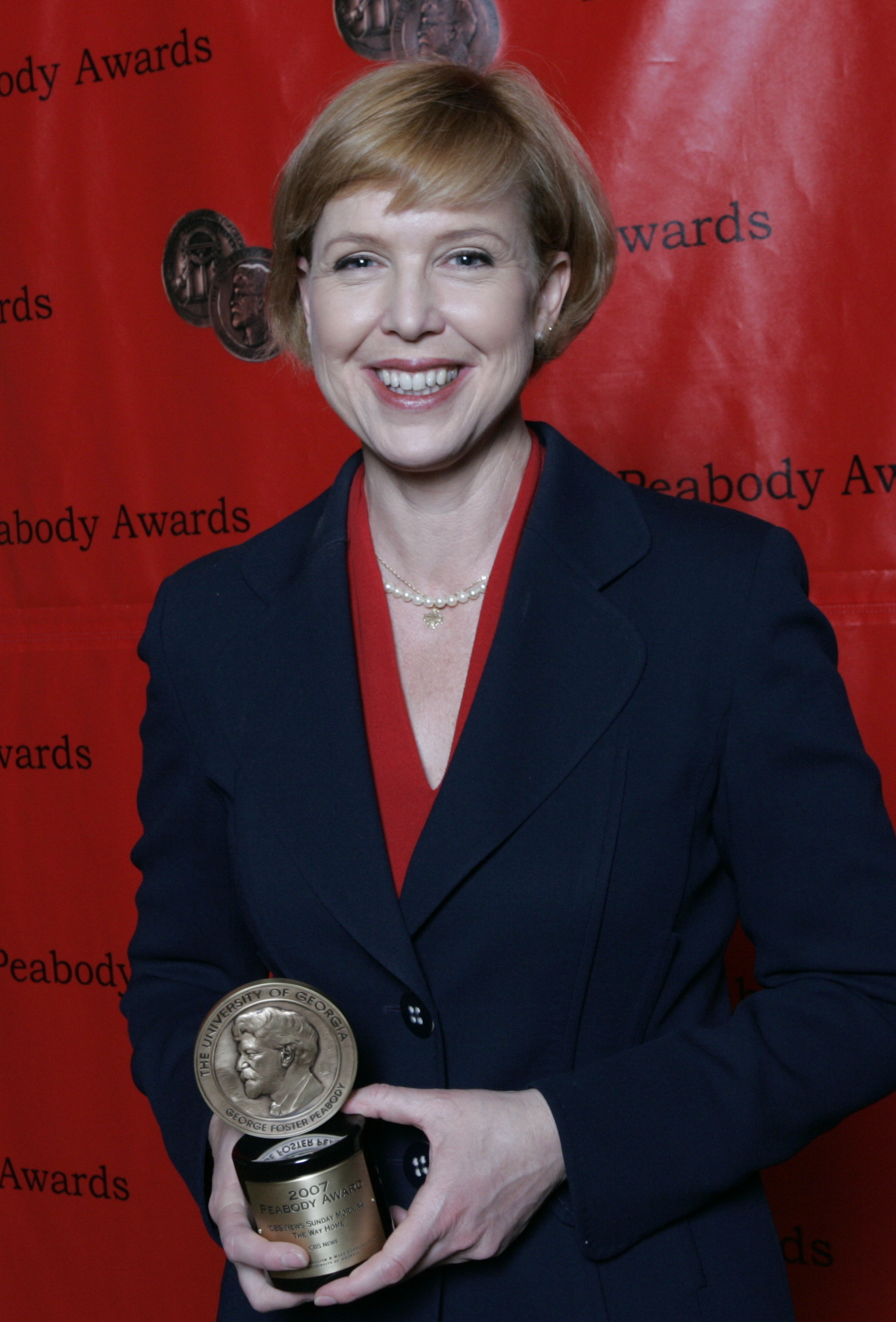 Kimberly Dozier 67th Annual Peabody Awards Luncheon Waldorf=Astoria Hotel New York, NY USA June 16, 2008